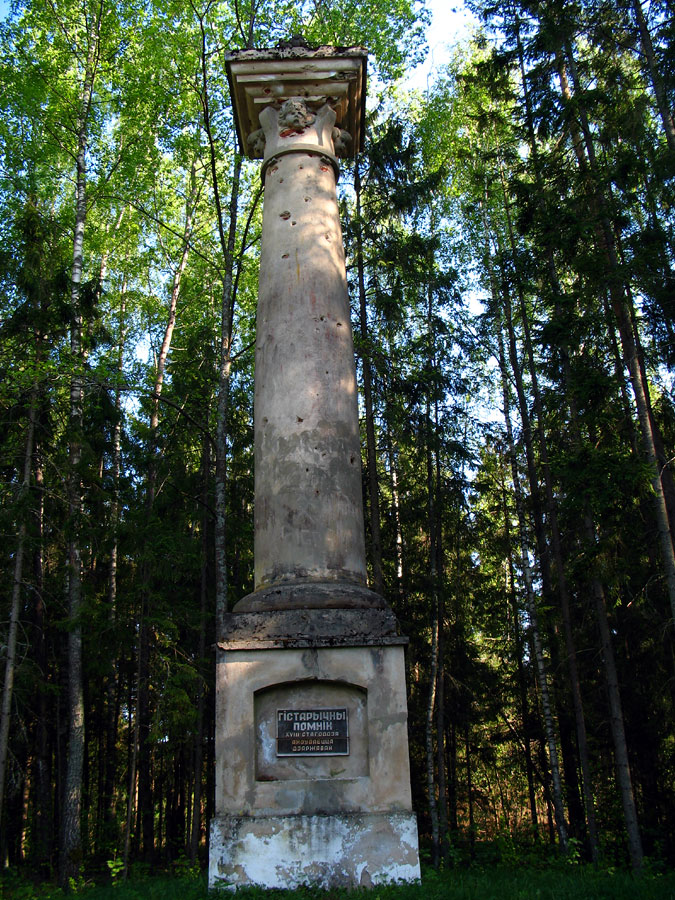 Memorial column of the first european Constitution of May 3, 1791